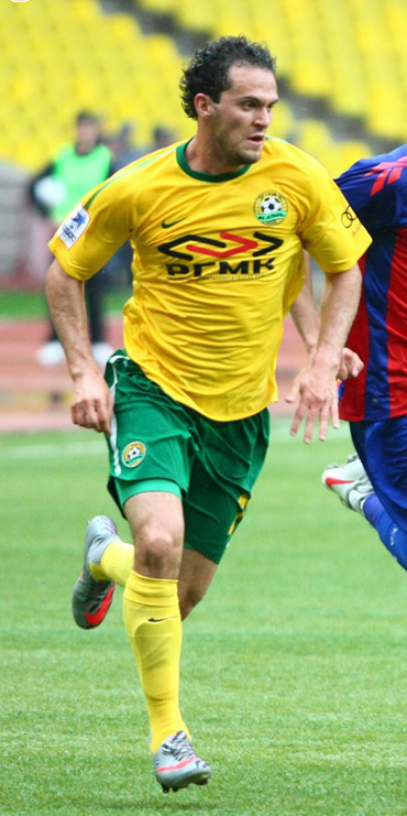 Marco Ureña in action for FC Kuban